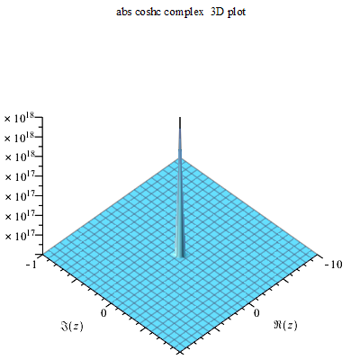 Coshc abs complex 3D plot